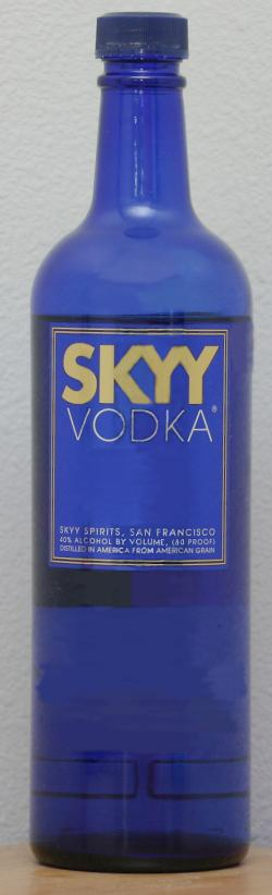 Skyy Vodka 750 ml bottle